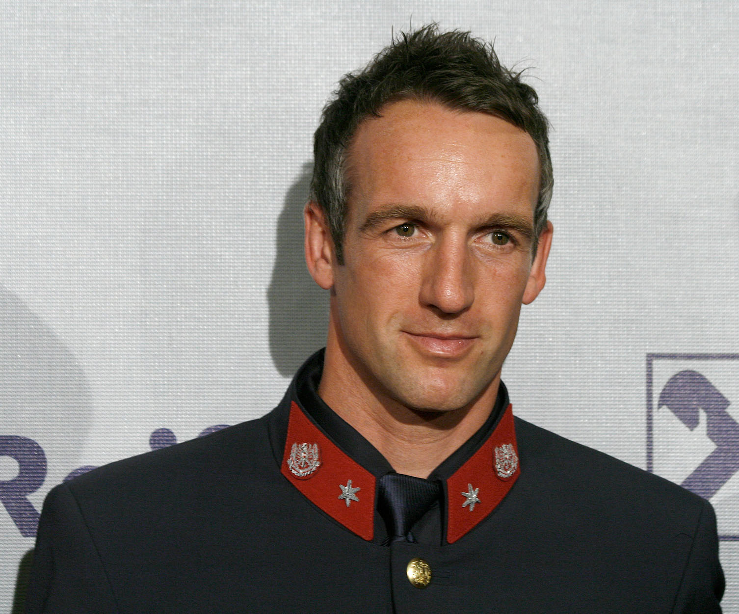 Christoph Sumann at the award show for the Austrian Sportspersonalities of the year 2009.